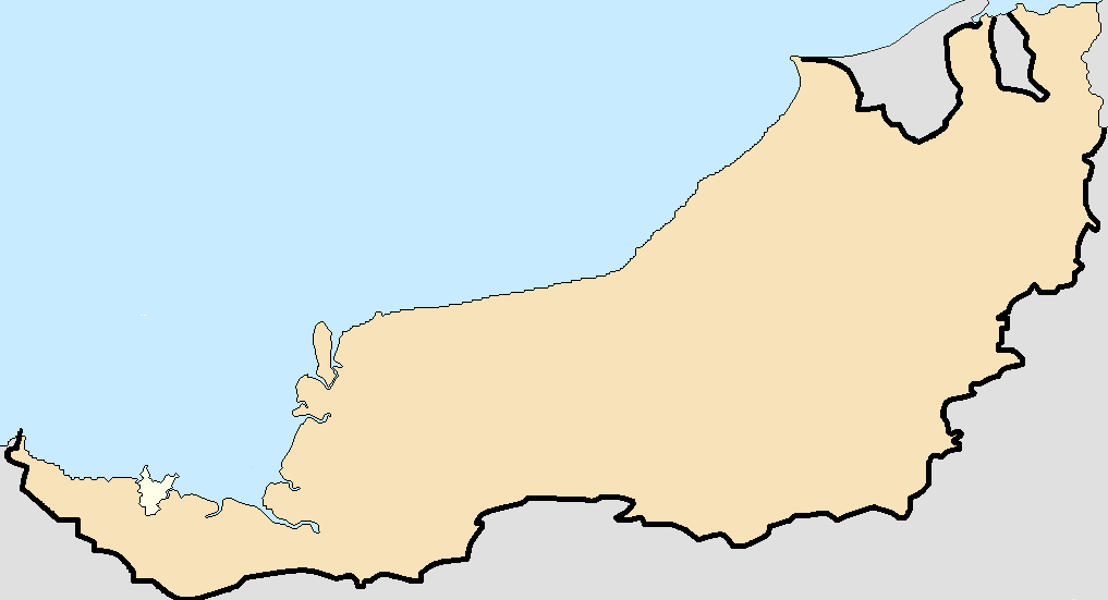 Location map of Kuching, the capital city of the Malaysian state of Sarawak.